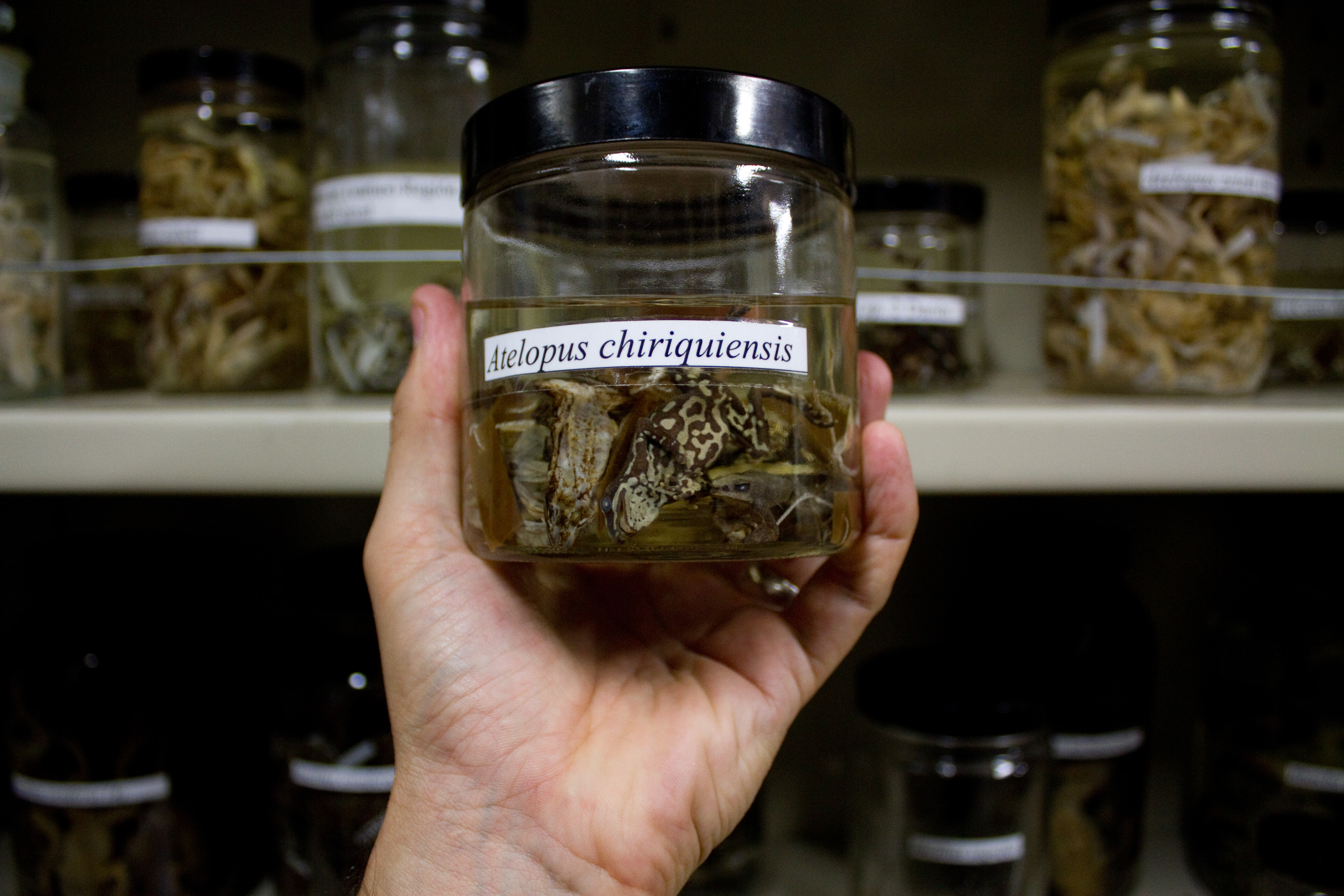 Atelopus chiriquiensis, once a common harlequin frog and subject of numerous ecological studies at Fortuna, last seen in 1996. Likely extinct due to chytridiomycosis.